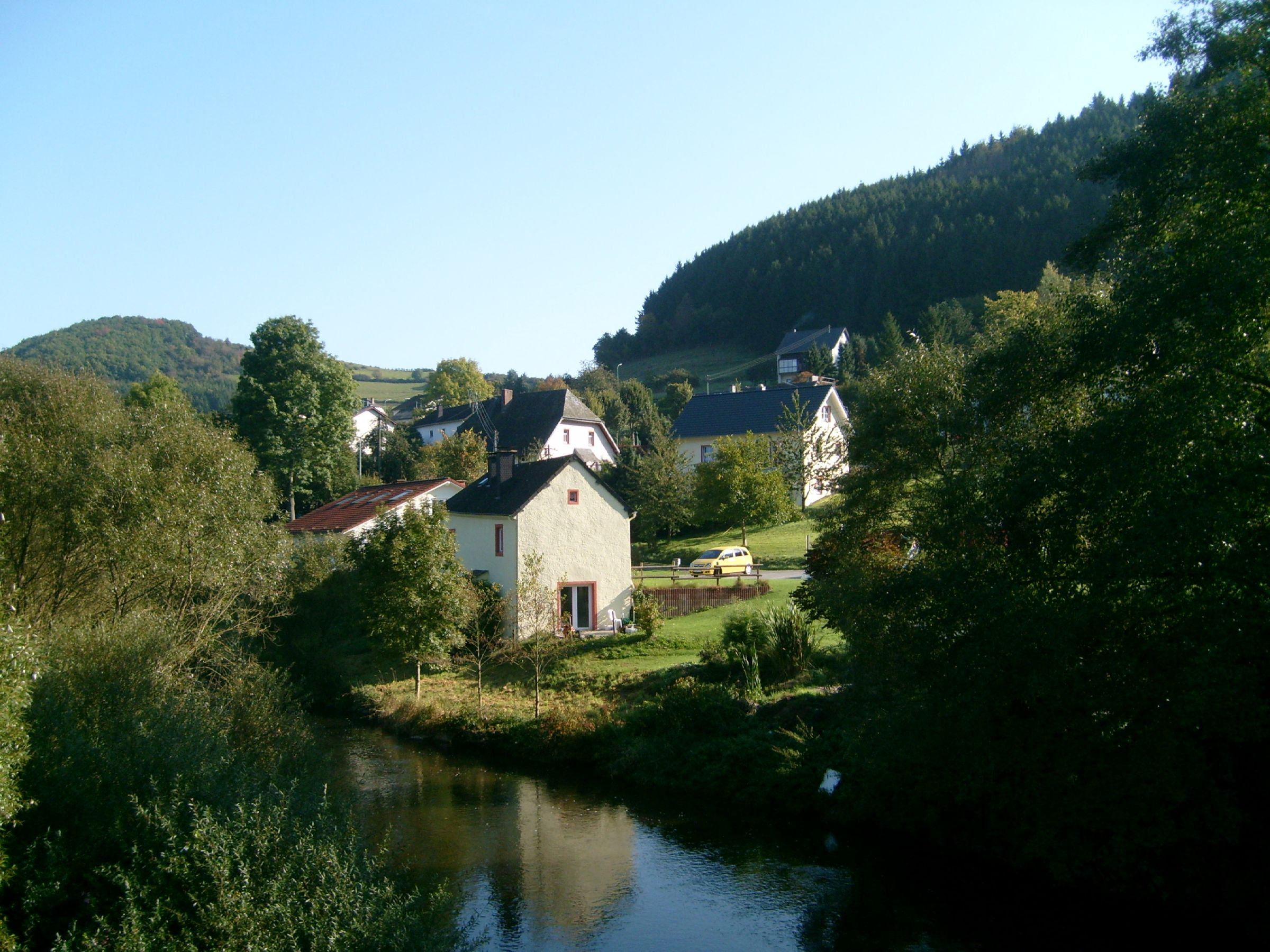 The village Übereisenbach, Germany.